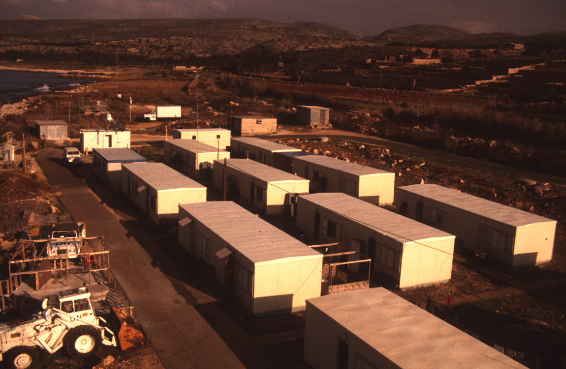 Parts of the Swedish Hospital Company (within UNIFIL) housing at Camp Silvia in Naquora, Lebanon.